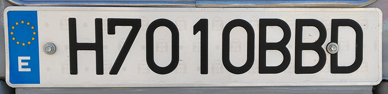 Current license plate model of historical vehicle.